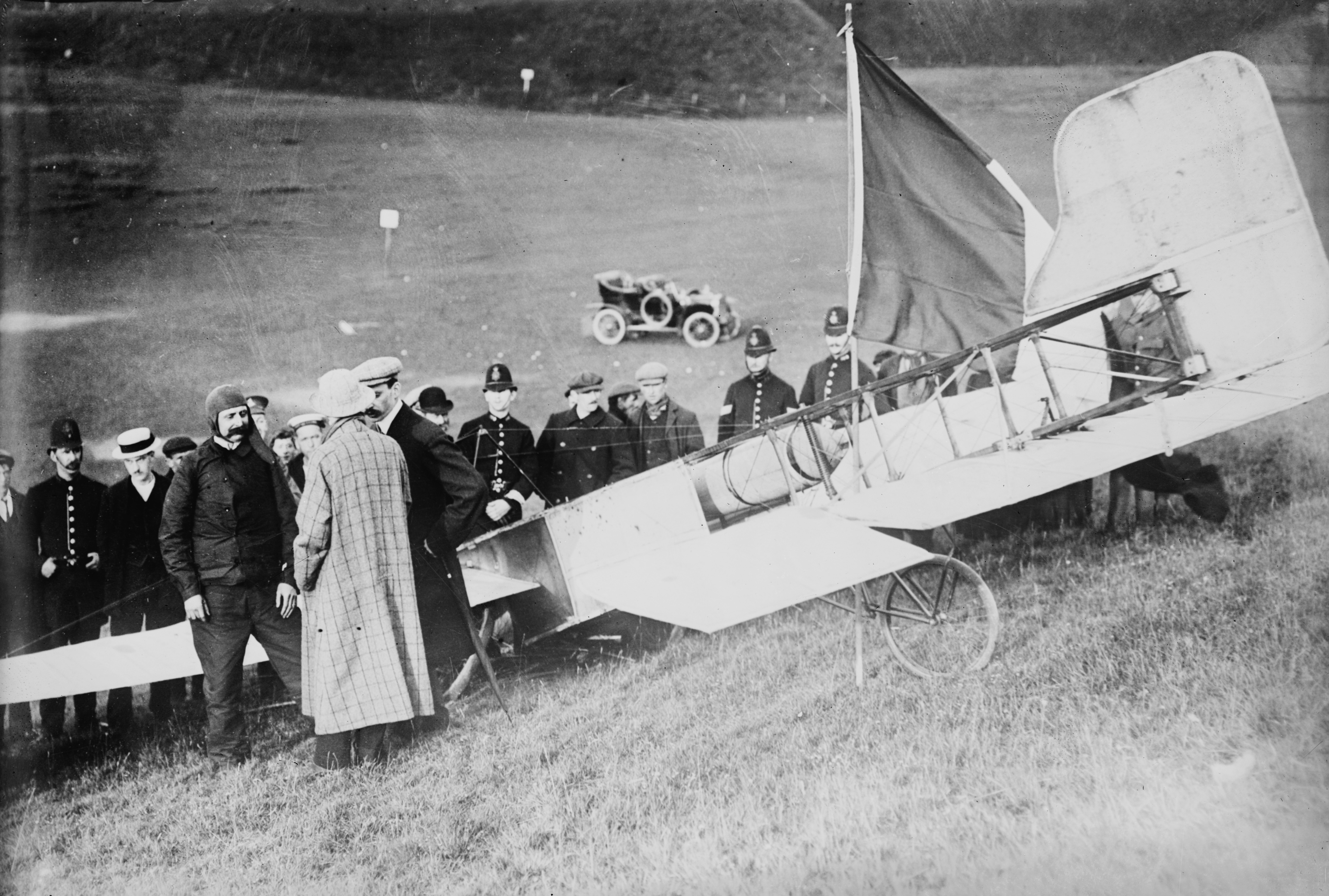 Louis Blériot (1872-1936) and his airplane Blériot XI after the first Channel crossing by airplane on July 25, 1909 at the landing field in Dover, England. (See also: Bleriot memorial, Dover)